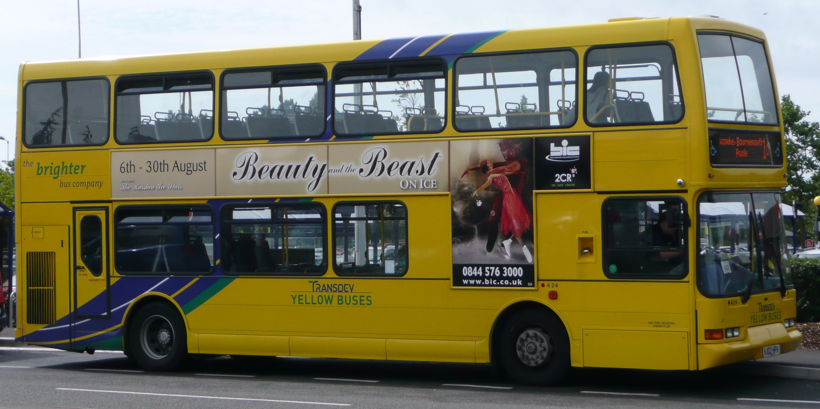 Transdev Yellow Buses 424 (HJ02 HFH), a Volvo B7TL/East Lancs Vyking, at Somerford Sainsbury's, Somerford, Christchurch, laying over between duties on route 1c.